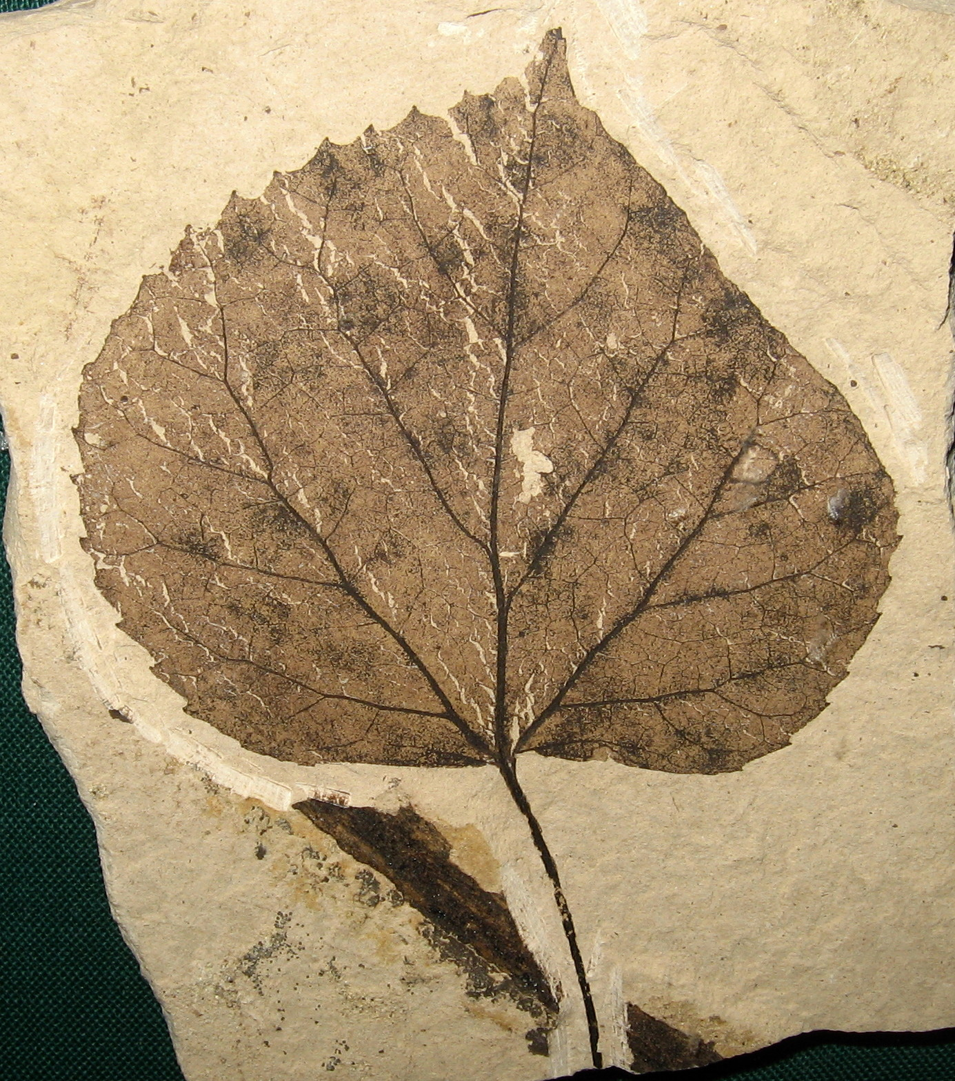 A single leaf from the extinct Tilia johnsoni. 49 million years old, Klondike Mountain Formation, Republic, Washington. Stonerose Interpretive Center Collections# SR ??-??-??